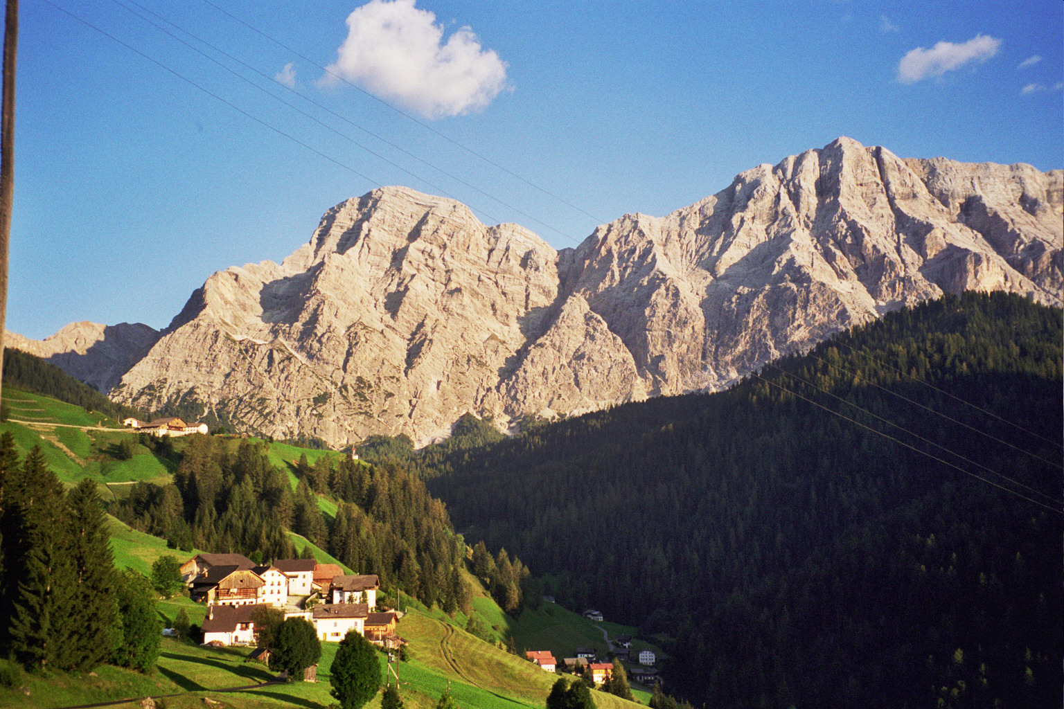 Ladinian Settlements Frenes and in the background above Colz, below in the shadow Rumestluns, in Wengen-La Val-La Valle, Dolomites, South Tyrol, Italy.